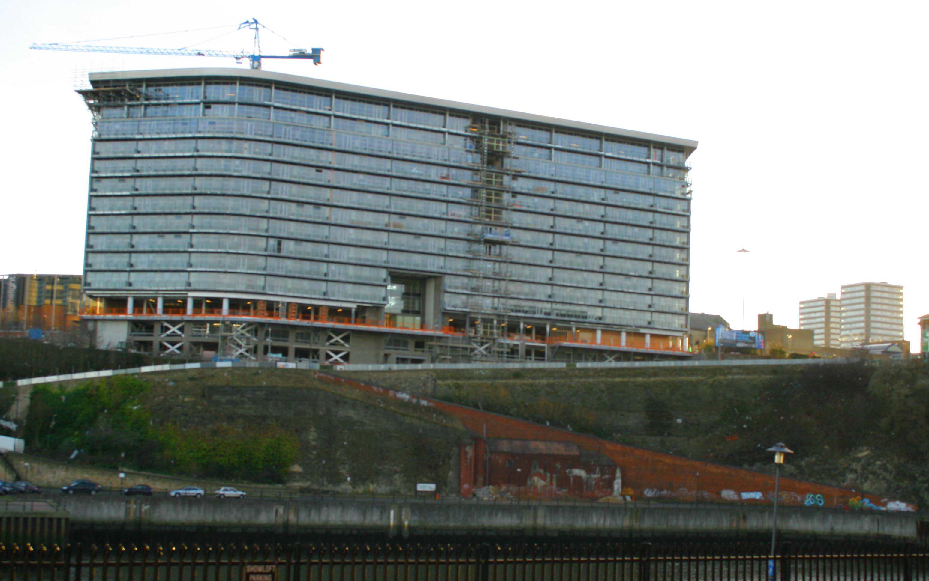 The Echo 24 apartment building in Sunderland